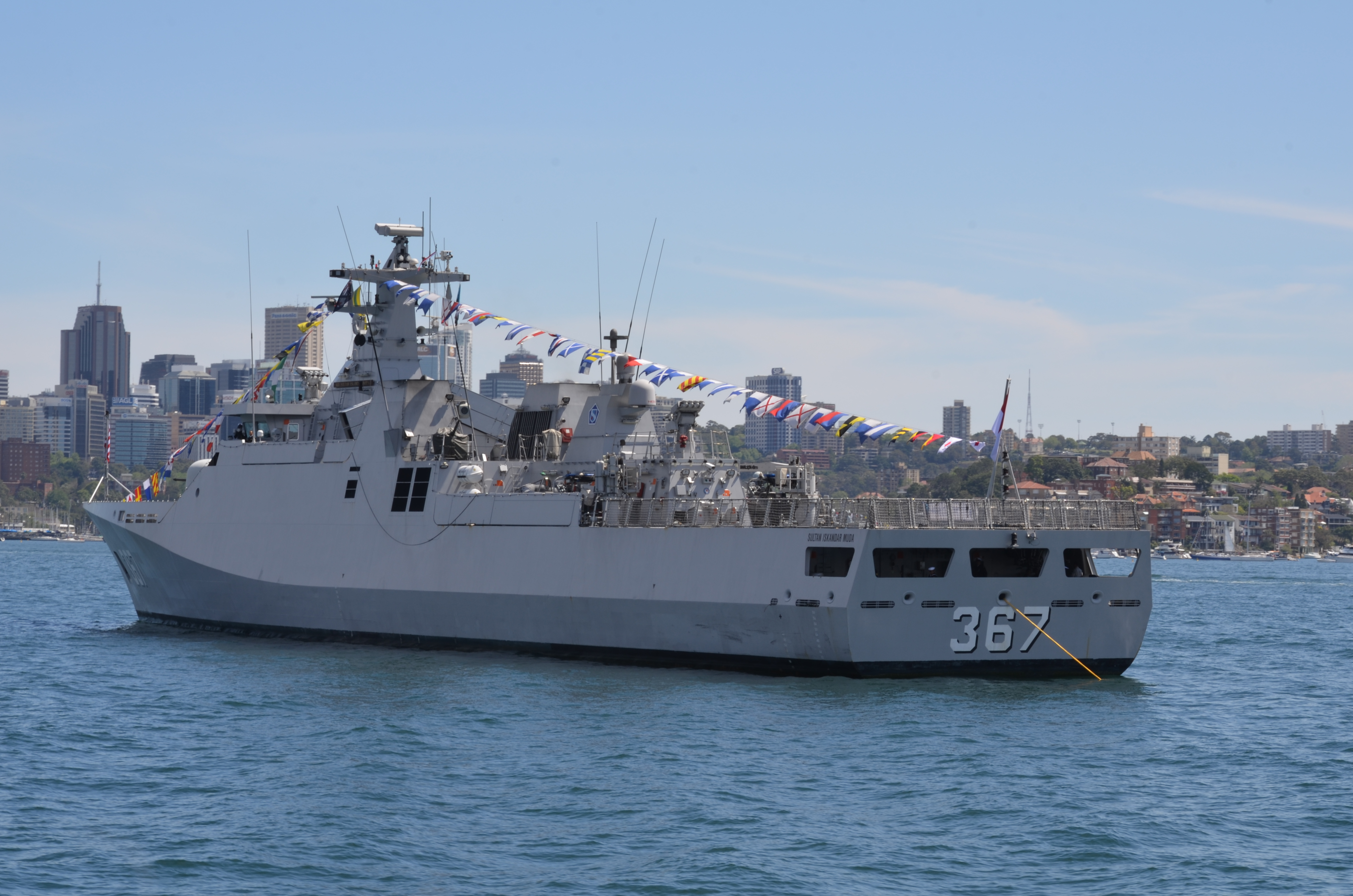 Photographs taken during day 3 of the Royal Australian Navy International Fleet Review 2013. Indonesian corvette KRI Sultan Iskandar Muda (SIM-367), moored in Sydney Harbour.